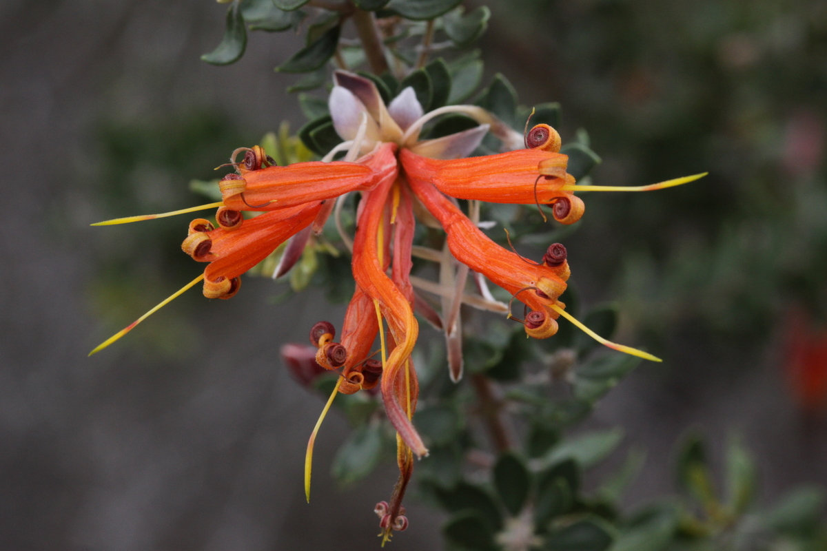 Lambertia inermis var. inermis at Yarrebee reserve, east of the Stirling Ranges, Western Australia